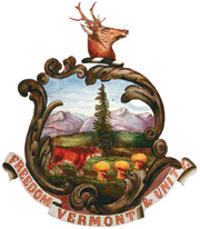 Vermont's coat of arms in stained glass, formerly in the chamber of the U.S. House of Representatives. Collection of the Vermont Historical Society